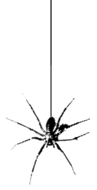 Spider hanging on a thread, derived from File:Loxoceles reclusa.jpg. Rotated 125 degrees counter-clockwise from original photograph, colours adjusted, cropped and thread added using IrfanView. Intended for use in icons or image maps.